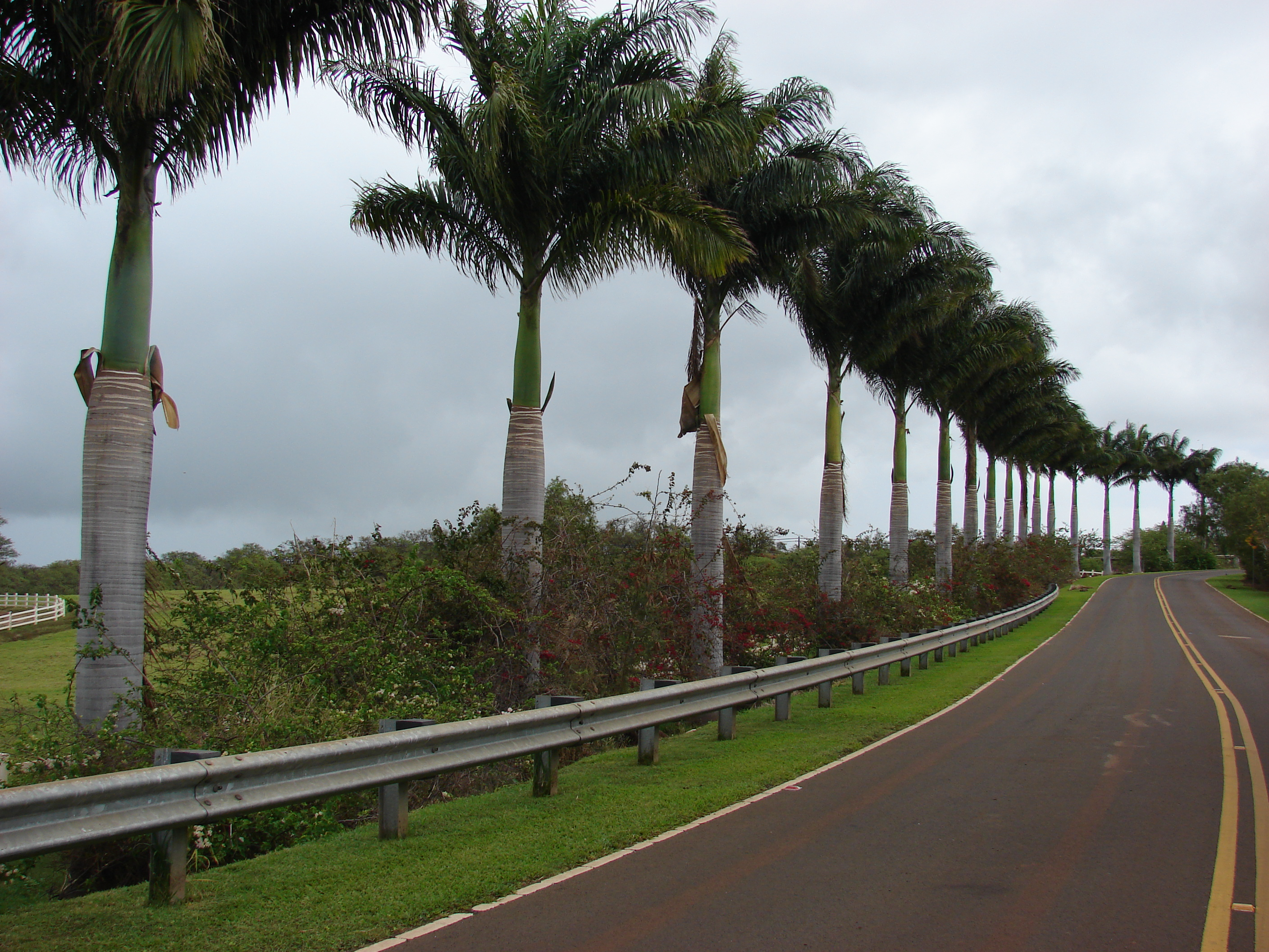 Roystonea regia (street trees). Location: Maui, Omaopio